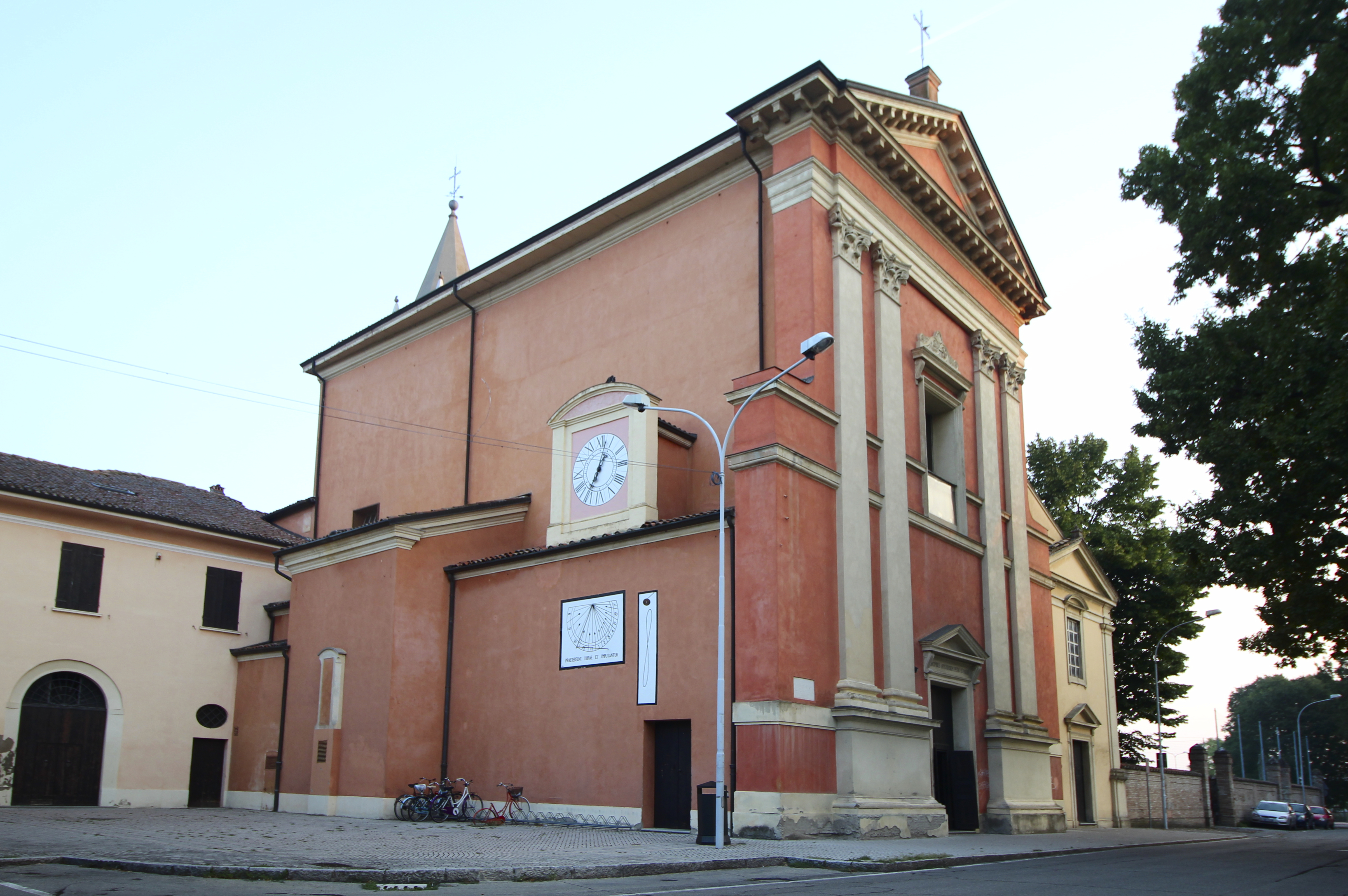 Church Santi Pietro e Paolo, Anzola dellEmilia, metropolitan city of Bologna, Emilia-Romagna, Italy